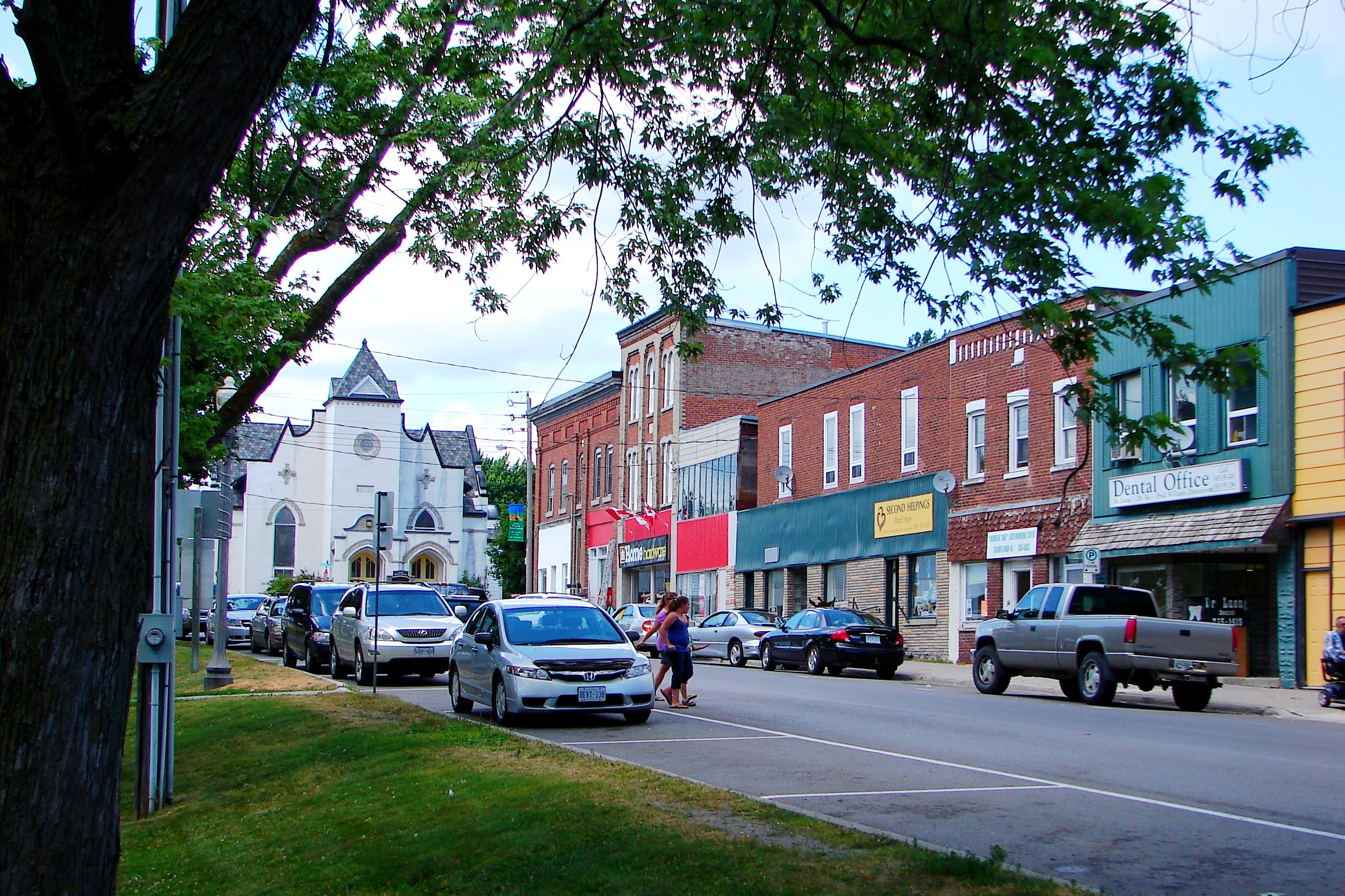 Colborne, Ontario, Canada